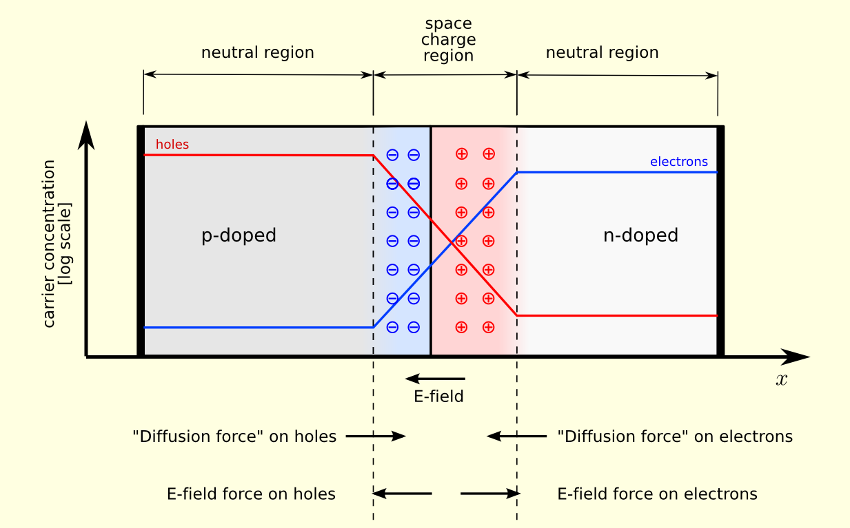 A p-n junction in thermal equilibrium with zero bias voltage applied. Electron and holes concentration are reported respectively with blue and red lines. Gray regions are charge neutral. Light red zone is positively charged. Light blue zone is negatively charged.